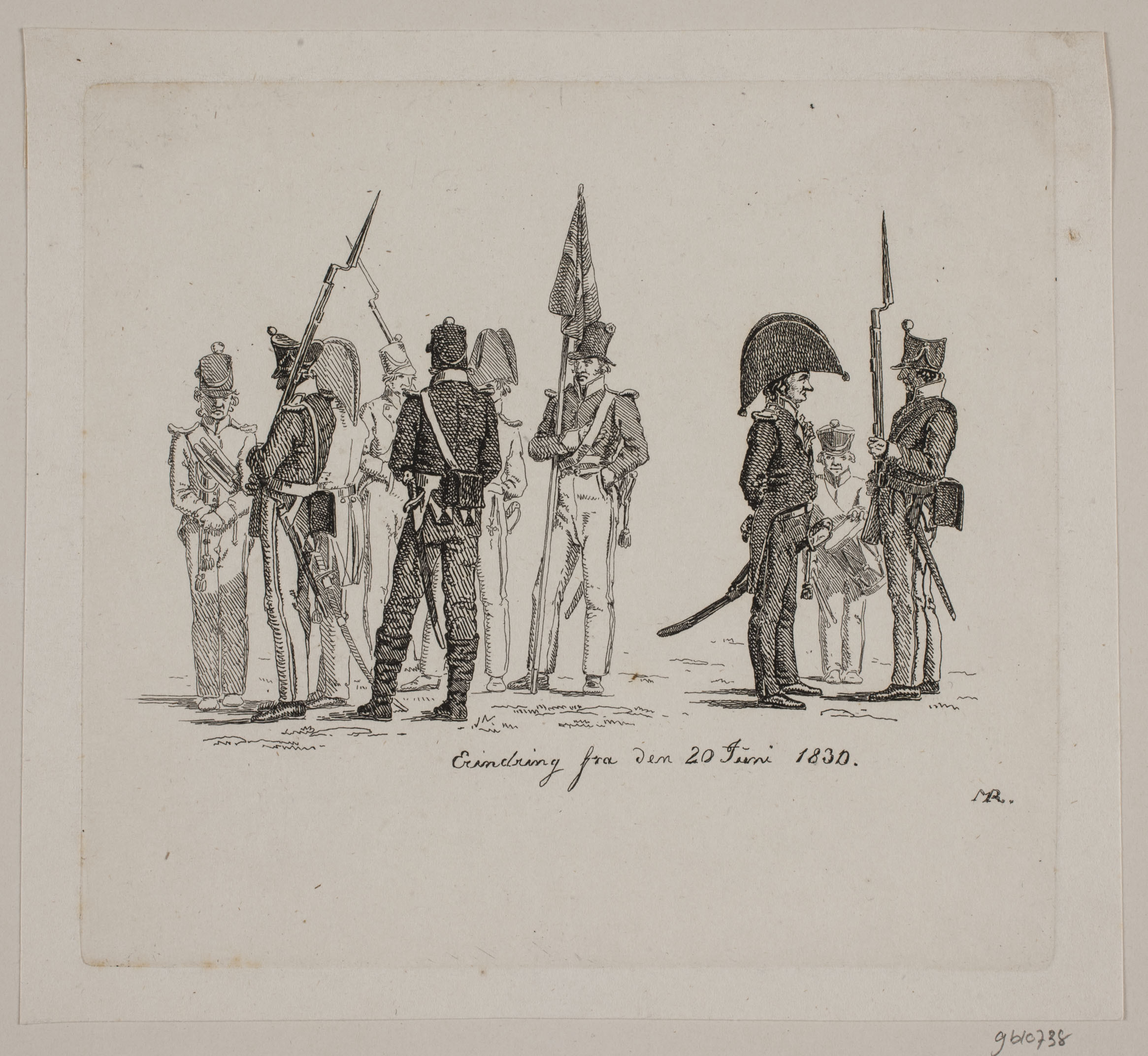 The City Militia of Thisted, gathered June 20 1830.